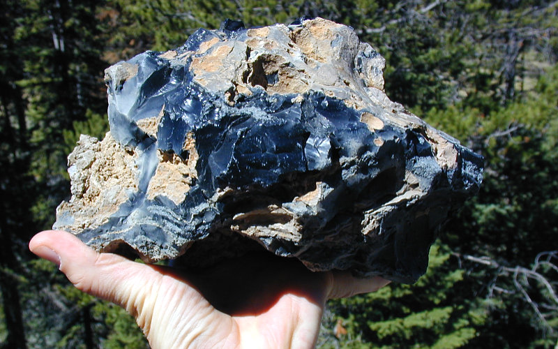 Obsidian from Obsidian cliff